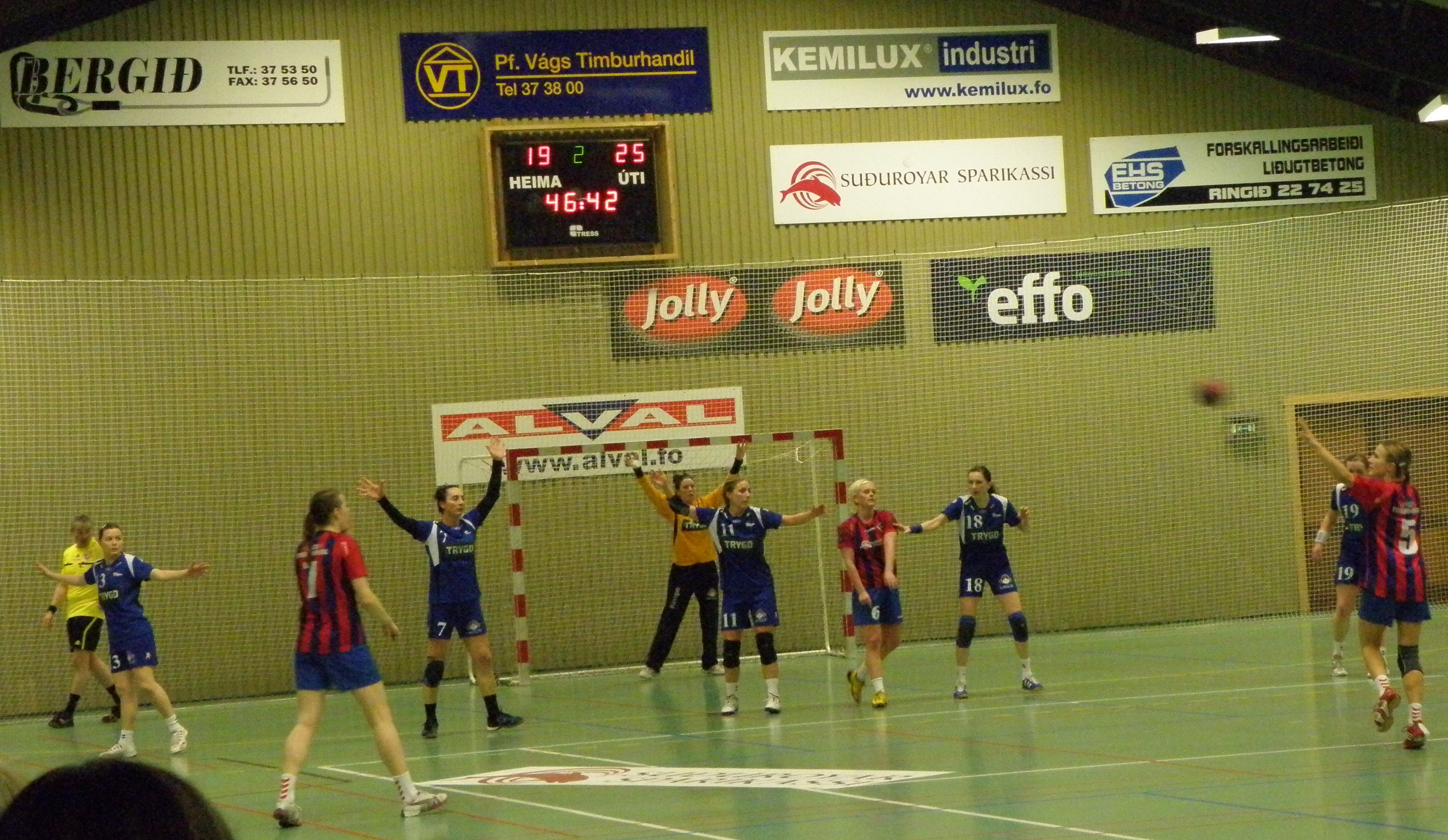 VB Vágur vs. Neistin Tórshavn in a handball match in Vágshøll in Vágur, Faroe Islands. The match was in the best Faroese division for women, which is called Sunsetdeildin. Neistin won this match with 33 goals, VB scored 26 goals. On 23 April 2011 Neistin women won the Faroese championship in Handball. The men's team of Neistin also won the Faroese championship in 2011, this was the first time since 1978 that both teams of Neistin won the Faroese championship. Føroyskt: VB - Neistin 26-33. Dystur í Sunsetdeildini, sum var spældur í Vágshøll 6. mars 2011. Neistin gjørdist føroyameistari hálvan annan mánað seinni hin 23. apríl 2011. Neistin vann føroyameistaraheitið hjá bæði kvinnum og monnum, tað var fyrstu ferð í 33 ár, at bæði menn og kvinnur hjá Neistanum vunnu føroyameistaraheitið sama ár.